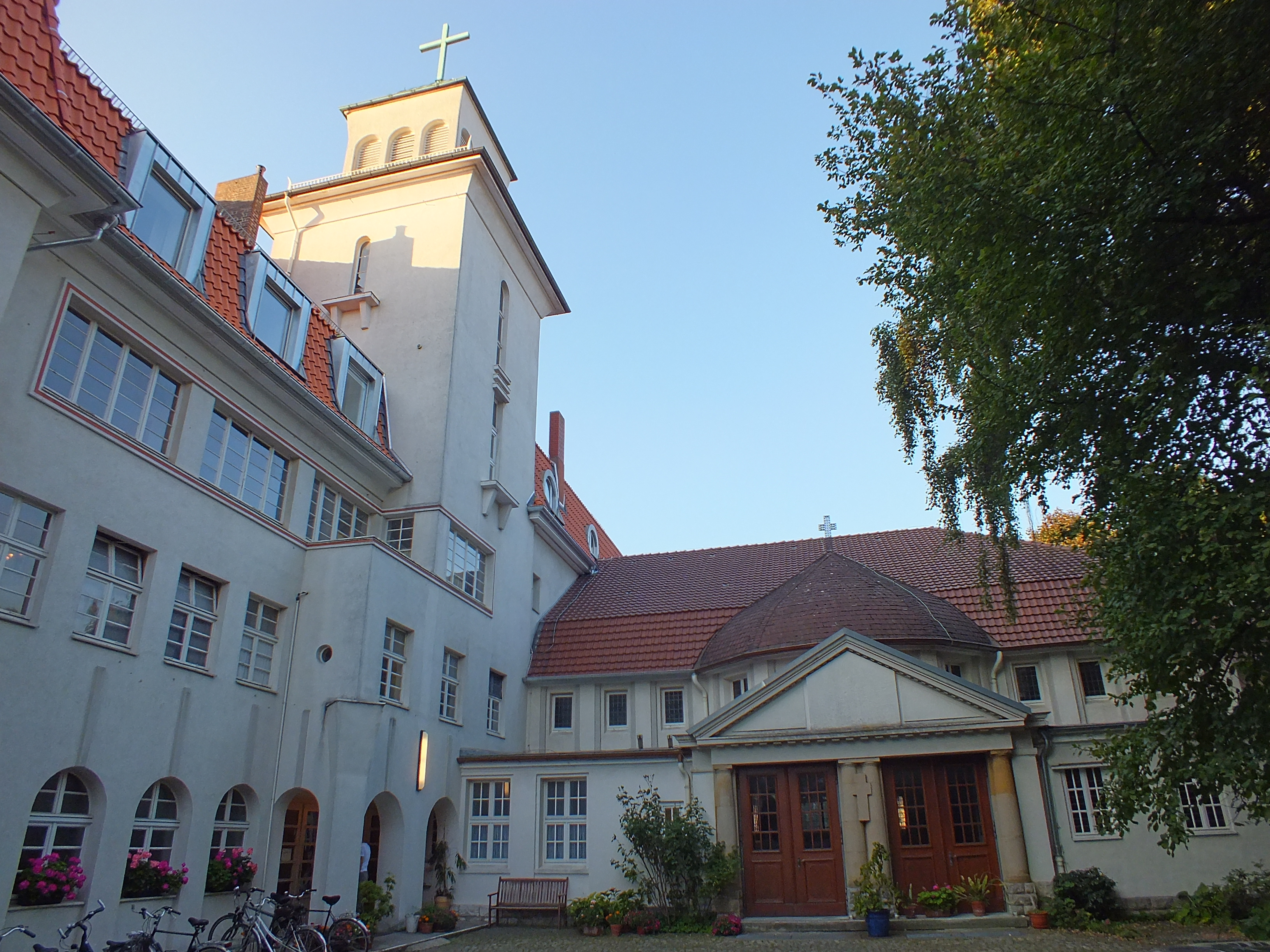 St. James-Church Bielefeld, Germany